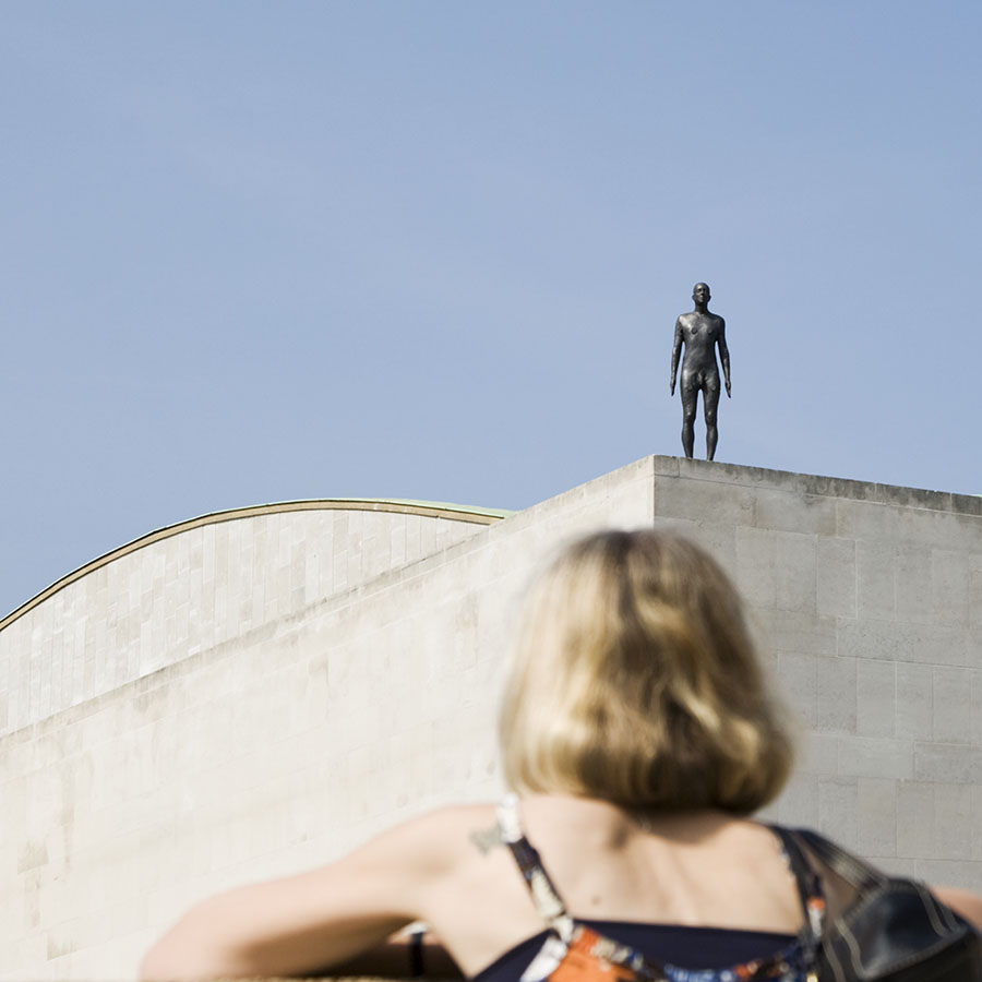 Author: Antony McCallum